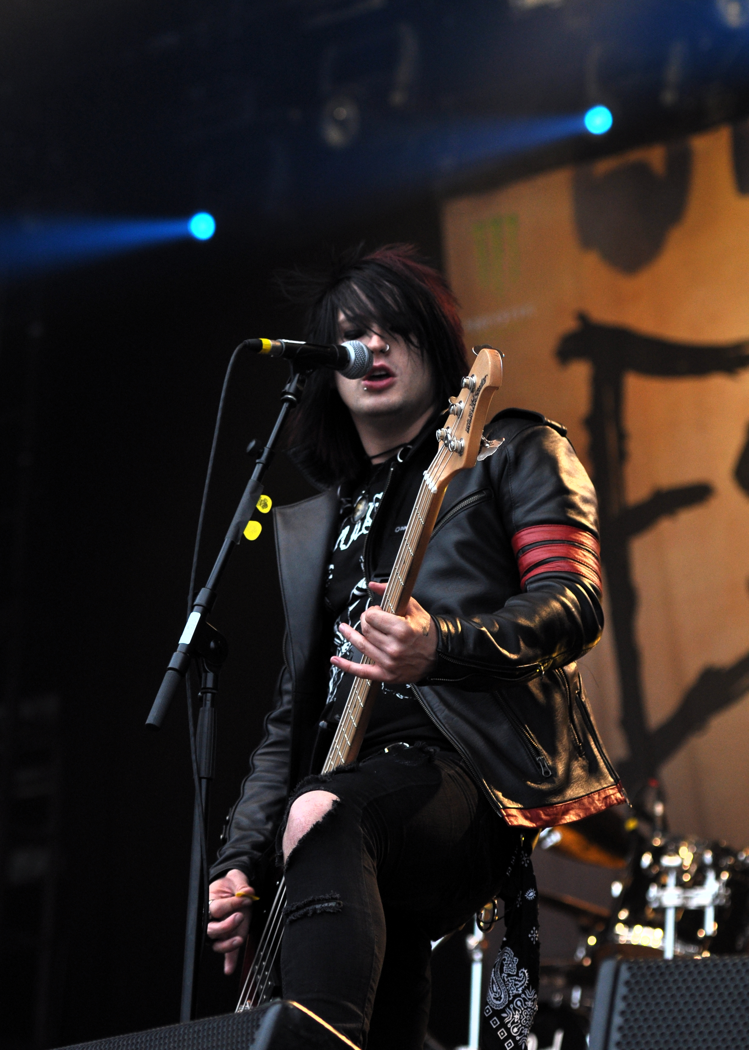 Escape the Fate at Rock am Ring 2013